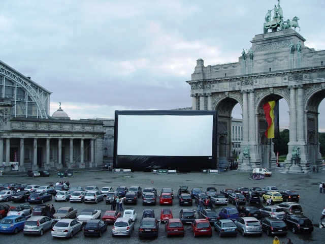 Drive-In Cinema in Brussels with inflatable movie screen